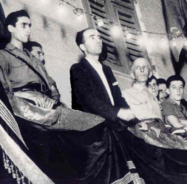 Paolo Emilio Taviani in Genua 450427